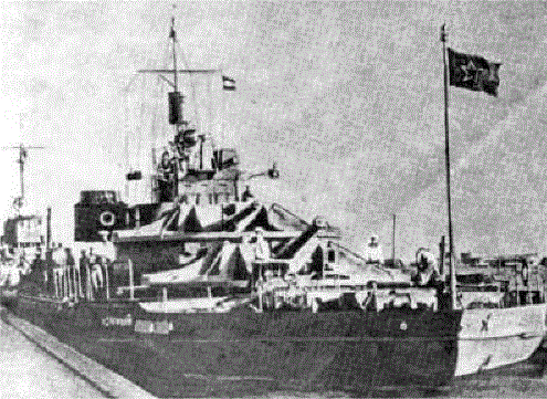 River monitor Udarnyy of the Soviet Danube Flotilla